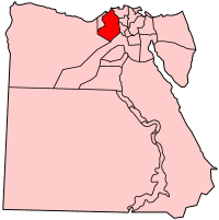 Map of Egypt showing Al Buhayrah (Beheira) governorate. Made by User:Golbez based on PD maps.